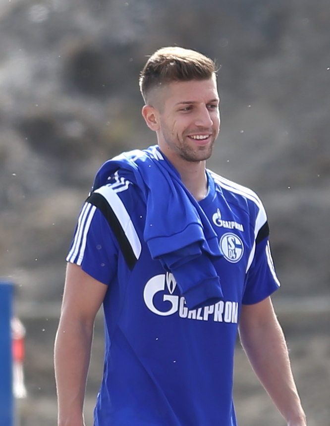 Matija Nastasić at a Schalke 04 training on 16 April 2015.